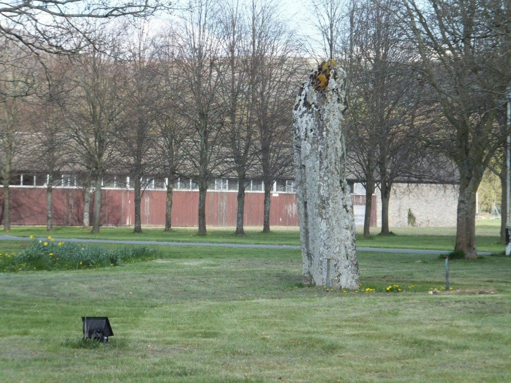 Cwrt-y-Gollen standing stoneThis 4m high monolith stands just inside the former Army property north of the A40 from which it is readily visible as this image shows. Made of lichen covered Old Red Sandstone it is likely Bronze Age origin.